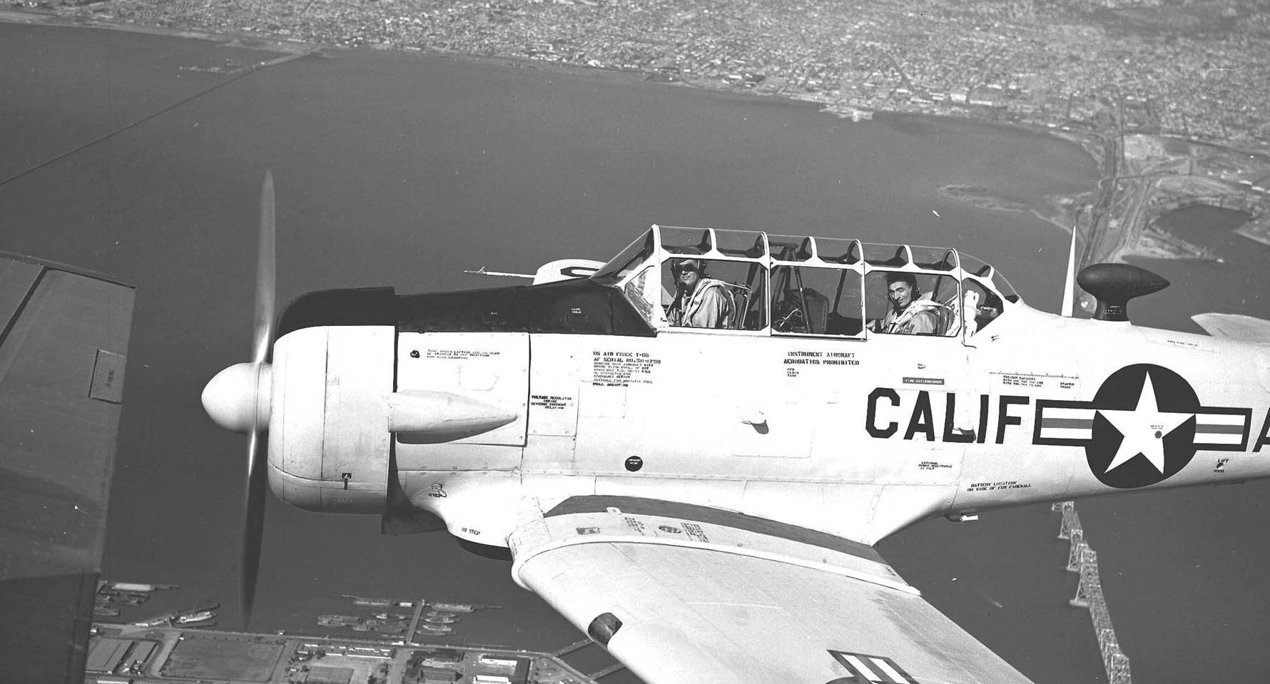 T-6G Ang flight closeup